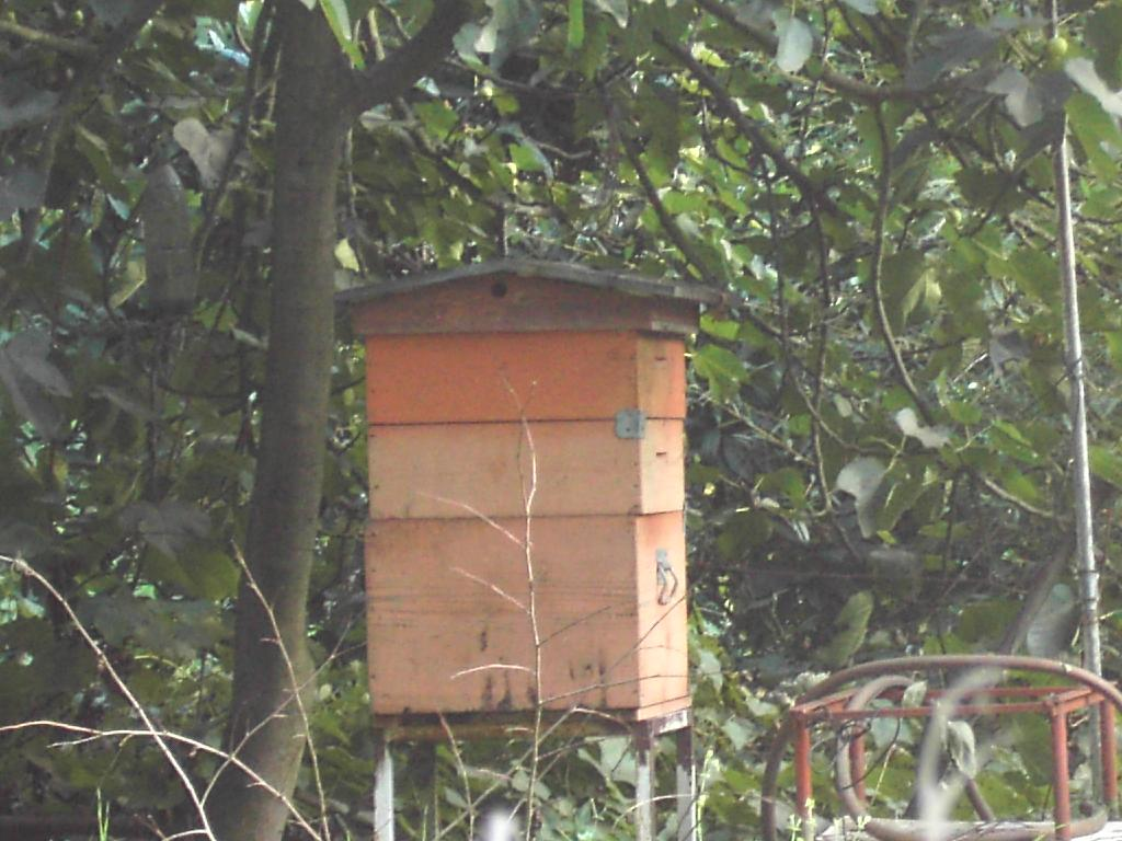 Hive in the city, Rome 2005 by Lalupa